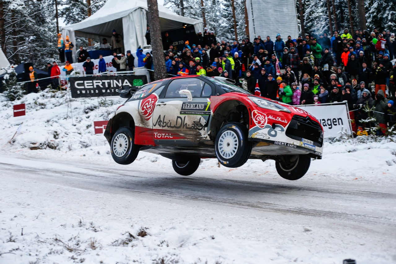 Kris Meeke and co-driver Paul Nagle in their Citroën DS3 WRC at the 2016 Rally Sweden.